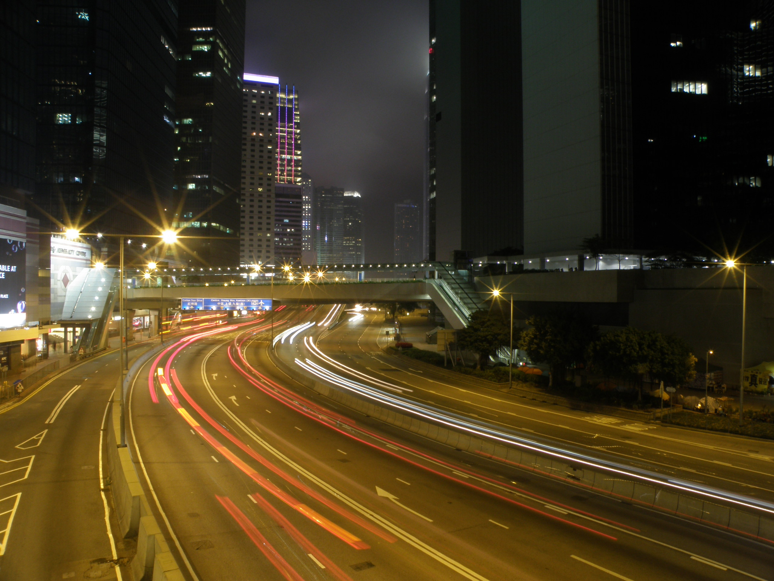 Harcourt Road in Admiralty, Hong Kong.